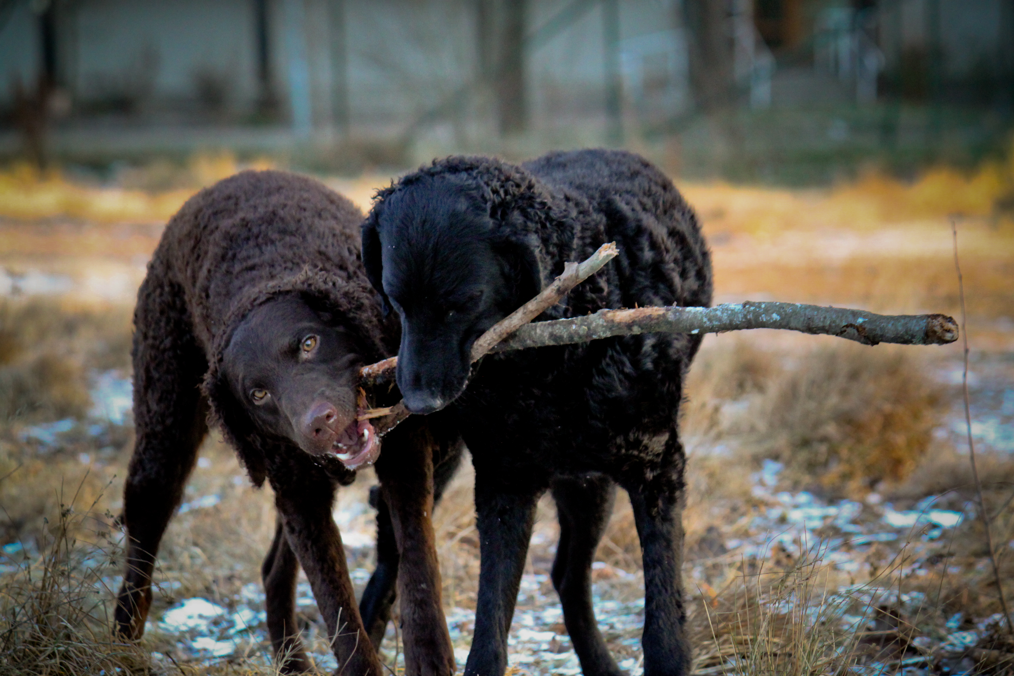 Curly Coated Retrievers